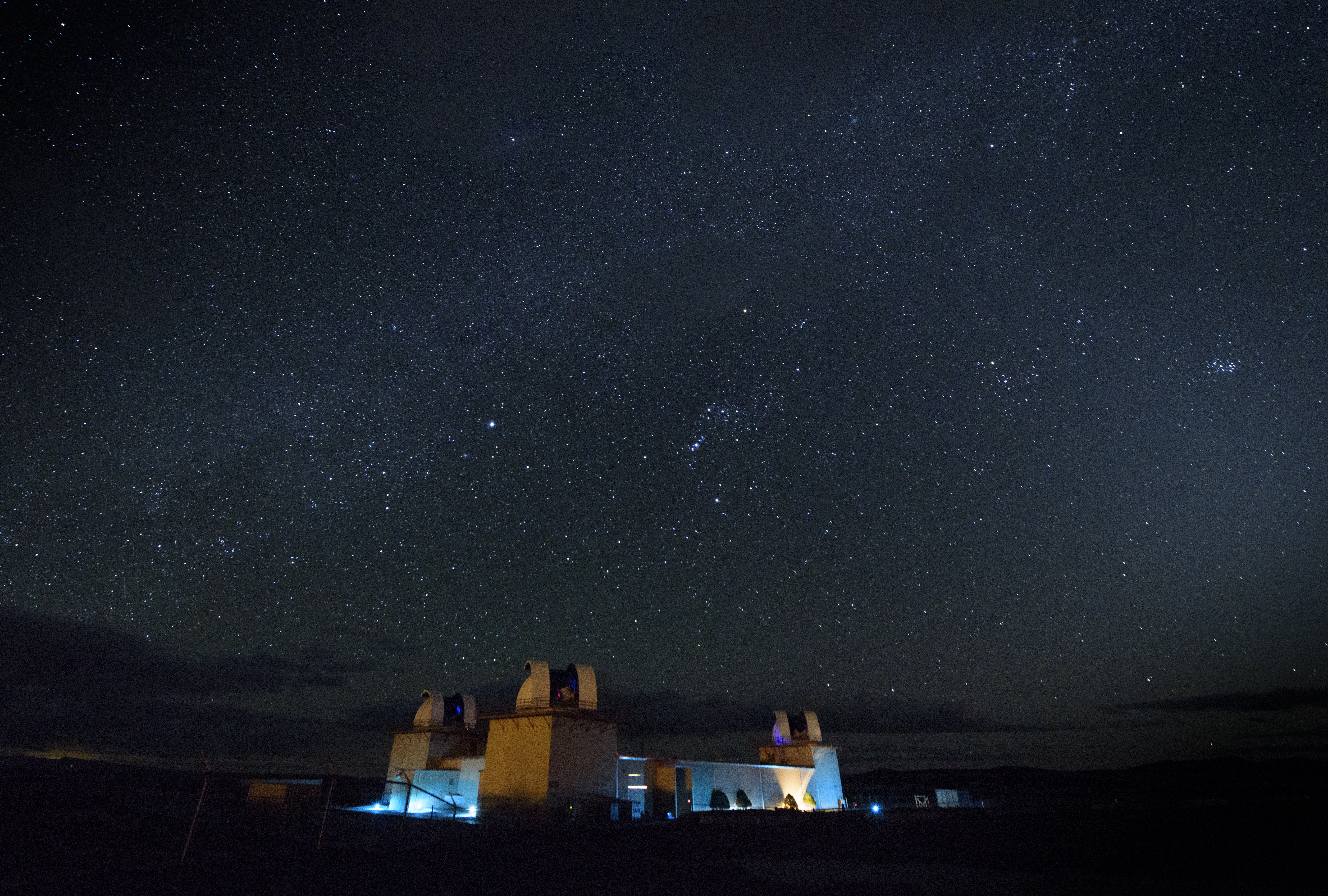 Stars fill the sky above the the ground-based electro-optical deep-space surveillance telescope located on White Sands Missile Range--the location of Detachment 1, 20th Operations Group and their space surveillance mission, March 29, 2017 in New Mexico. (U.S. Air Force photo by Airman 1st Class Dennis Hoffman)